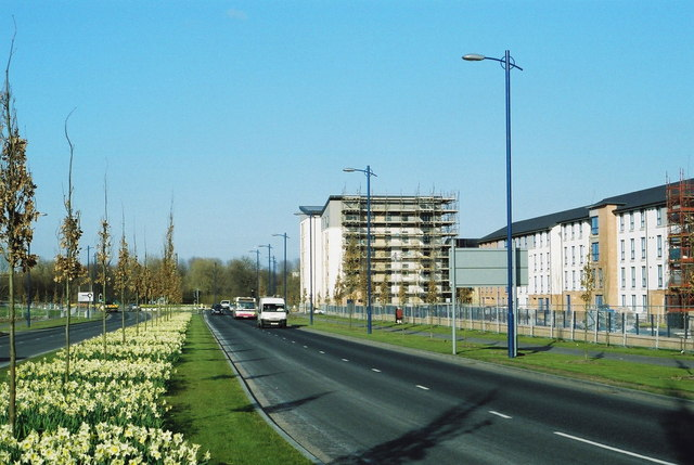 The Boulevard, Oatlands, Glasgow The Boulevard was opened to traffic in November 2006, part of a new traffic by-pass for the Oatlands area, currently the subject of a major urban regeneration project led by Glasgow City Council (lead developer - Gladedale). Nearly 1,300 houses are being built and Richmond Park is being upgraded as part of the scheme.